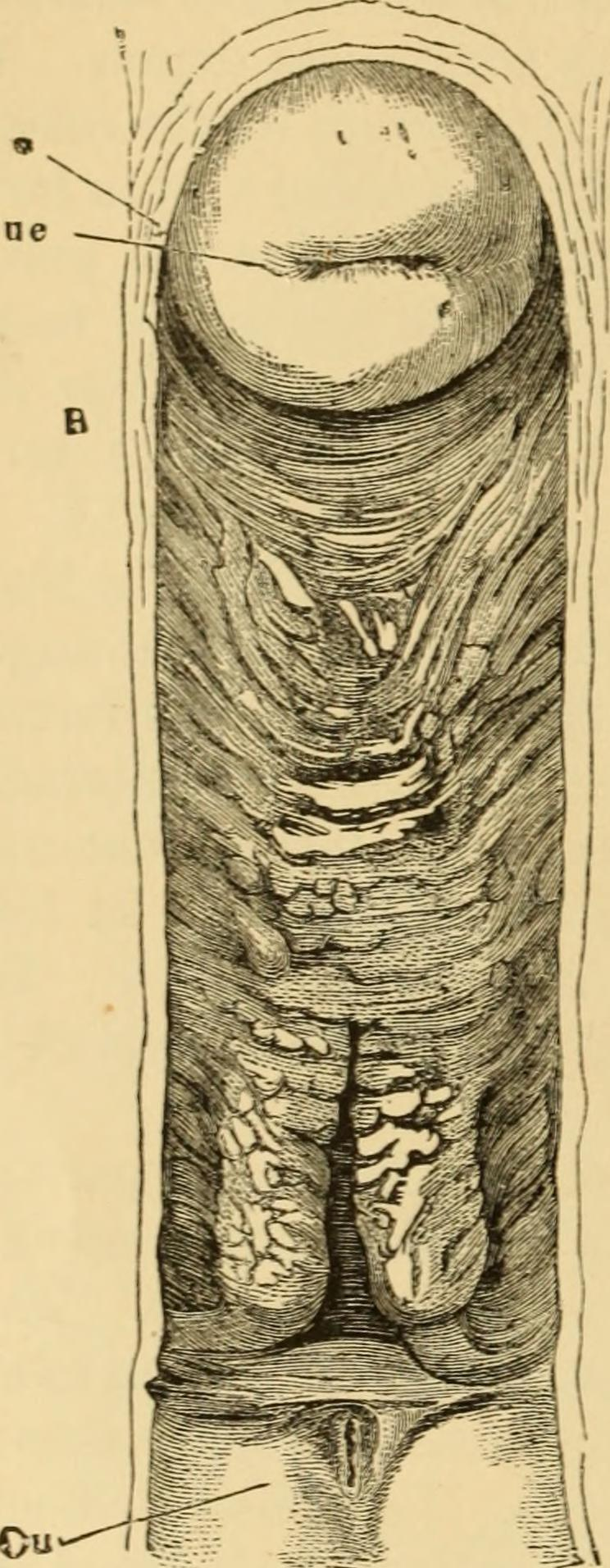 Title: The science and art of midwifery Year: 1891 (1890s) Authors: Lusk, William Thompson, 1838-1897 Subjects: Obstetrics Publisher: New York, D. Appleton and Co. Text Appearing Before Image: velopmentas to communicate to the finger a dis-tinctly granular sensation. Though the secreting glands of thevagina f are few in number, it is covered,even in periods of repose, with a thinlayer of acid mucus. Under sexual ex-citement, and during menstruation orpregnancy, the amount of this secretionis largely increased. The hypogastric, the uterine, thevesical, and the pudendal arteries all send branches to the vagina.The pulsations of the uterine artery may sometimes be felt throughthe upper part of the vaginal walls. During pregnancy these pulsa-tions are always so distinctly marked as to constitute a good inferen-tial sign of that condition. The veins form a close plexus around the vagina. Like all thepelvic veins, they are without valves, and are therefore peculiarly sub- * Henle, Handbuch dcr Eingeweidelehre des Menscben, Braunschweig, 1S66, p.450. f Tbe occasional presence of glands in the vagina has been demonstrated by Preus-chen. Vide Yirchows Archiv, 1877, vol. lxx, p. 111. Text Appearing After Image: Fig. 8.—The vacrina (exposed in itsentire length by the removal ofthe posterior wall). Ou. orifici-um urethra?; Oue, orificium utc-rinum-externurn; B. section ofwall at the fornix vaginas. (Hen-le.) FEMALE ORGANS OF GENERATION, 11